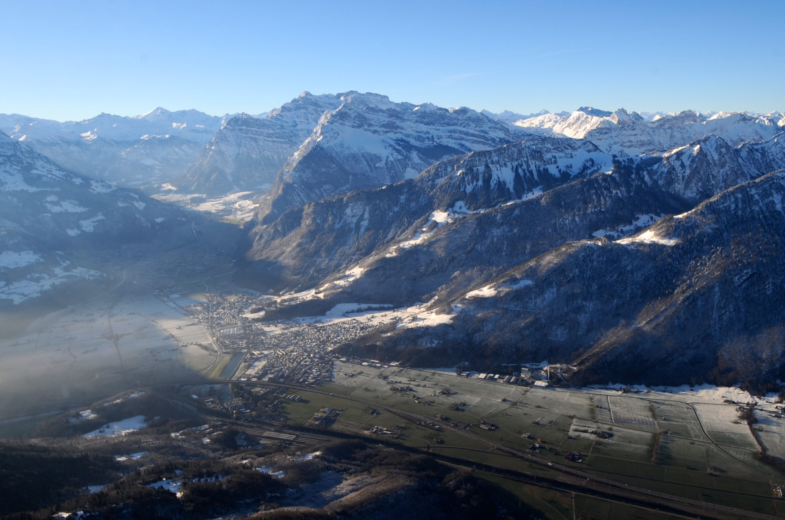 Niederurnen/Glarus Nord, as seen from the helicopter carrying U.S. Secretary of State John Kerry as he flew between Davos, Switzerland, and Zurich on Jan. 25, 2014.[State Dept. Photo/Public Domain]